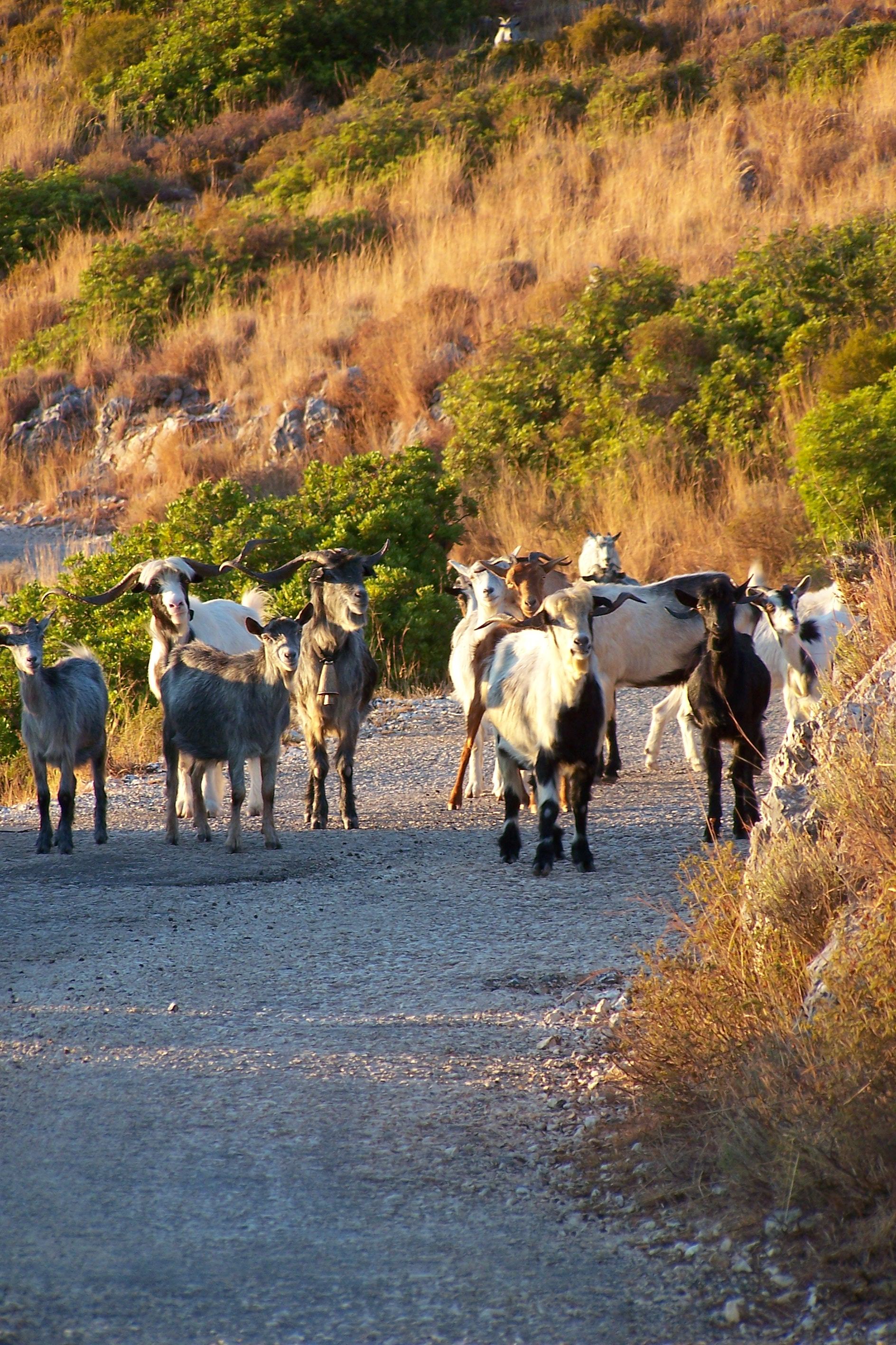 Goats in Vuno, Vlorë District, Albania